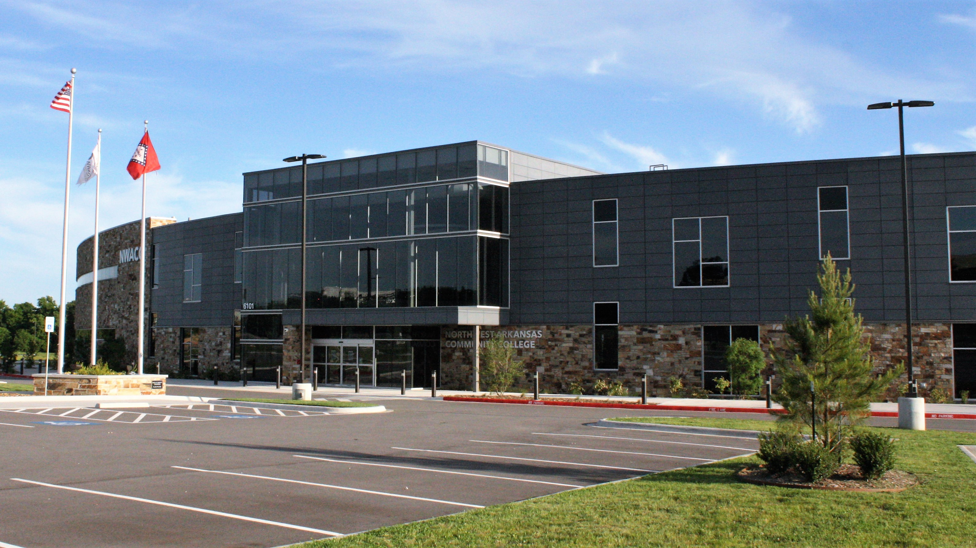 Washington County campus of the Northwest Arkansas Community College in Springdale